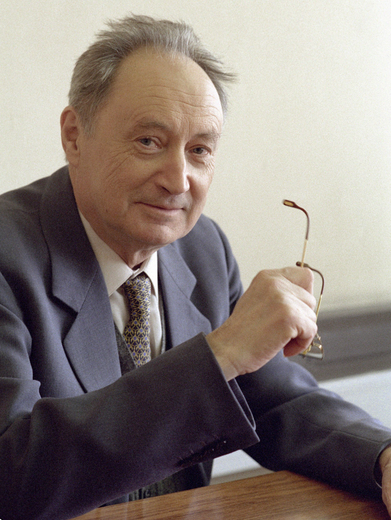 “Gennady Gerasimov, journalist and diplomat”. Gennady Gerasimov, journalist and diplomat.